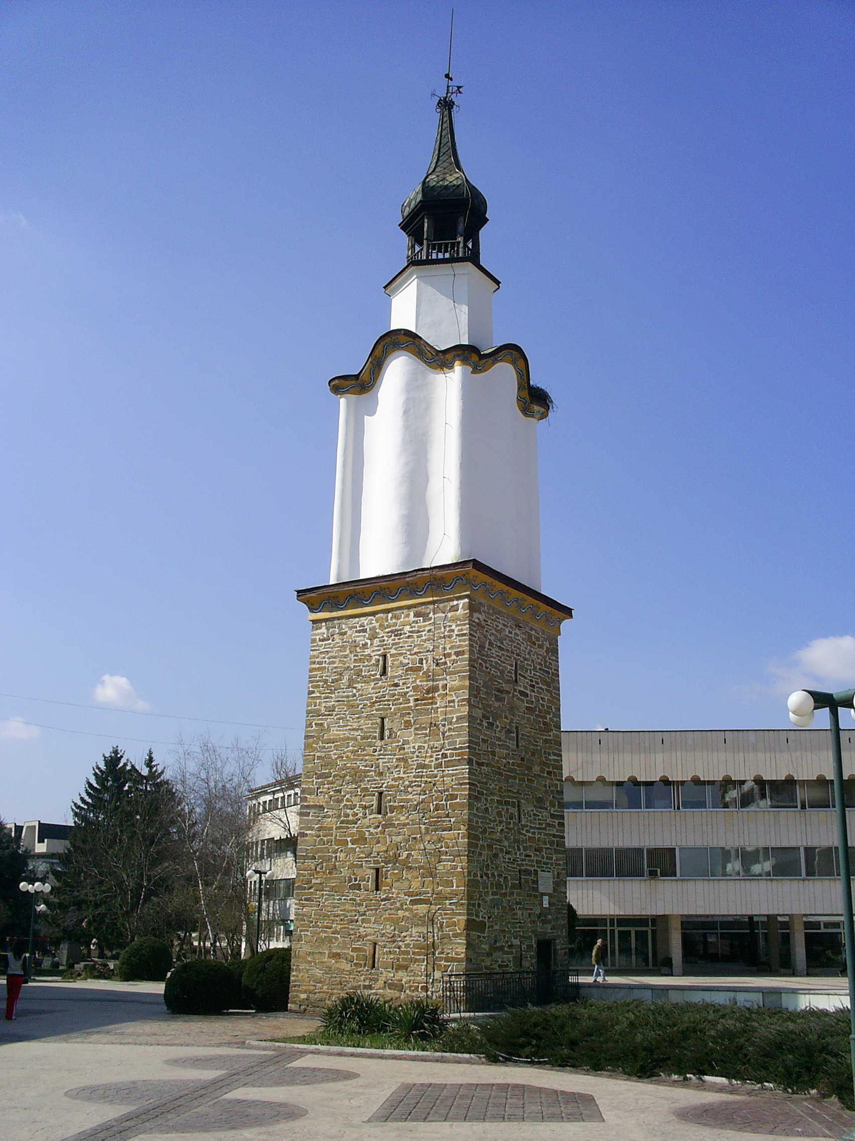 The clock tower in Botevgrad, Bulgaria. One of the 100 National touristic sites